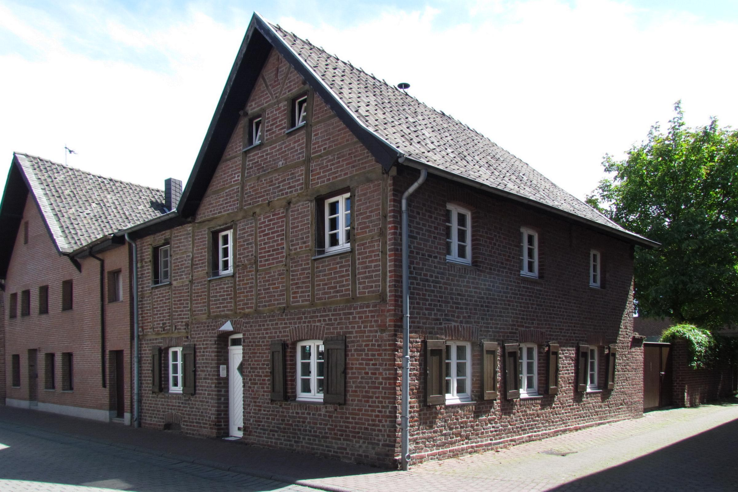 This is a photograph of an architectural monument.It is on the list of cultural monuments of Korschenbroich